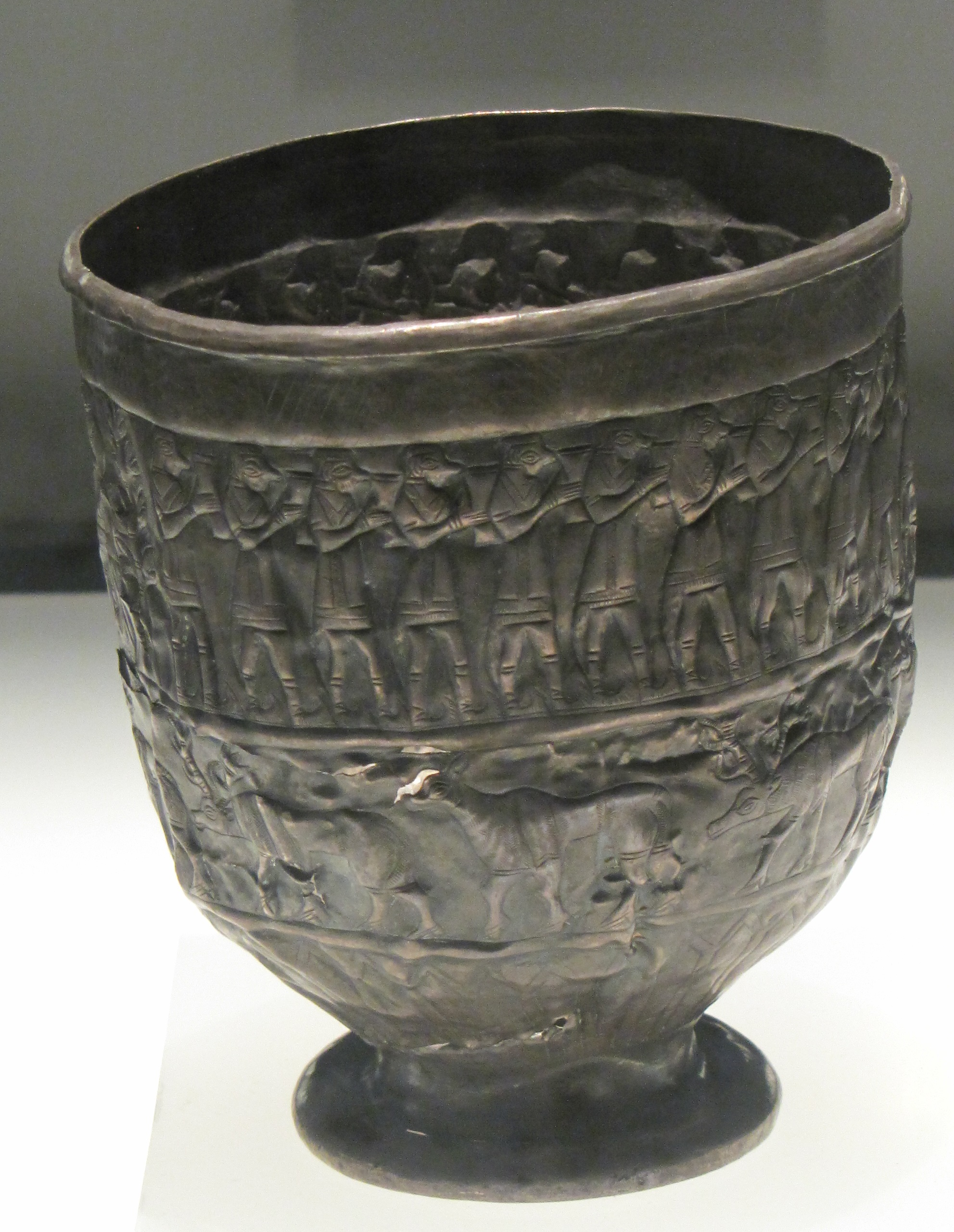 Trialeti silver cup, with thanks to the Georgian National Museum for allowing photography